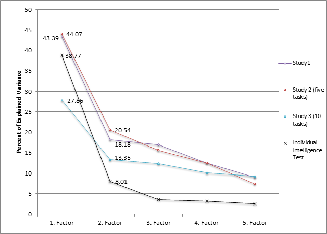 The first factor for each study explains more than twice as much of the variance as the subsequent factors.